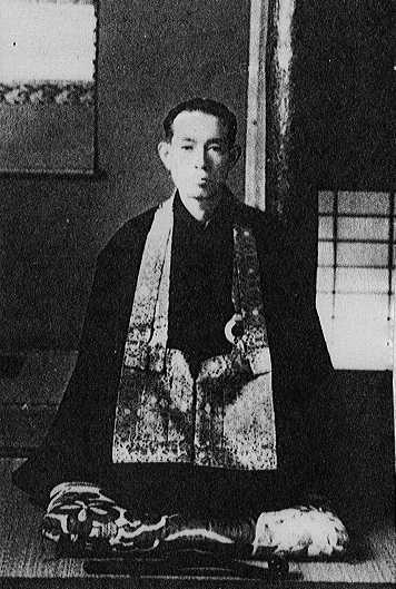 Lay Rinzai Zen practitionner and teacher Ohazama Shuei portraitized in religious clothes.